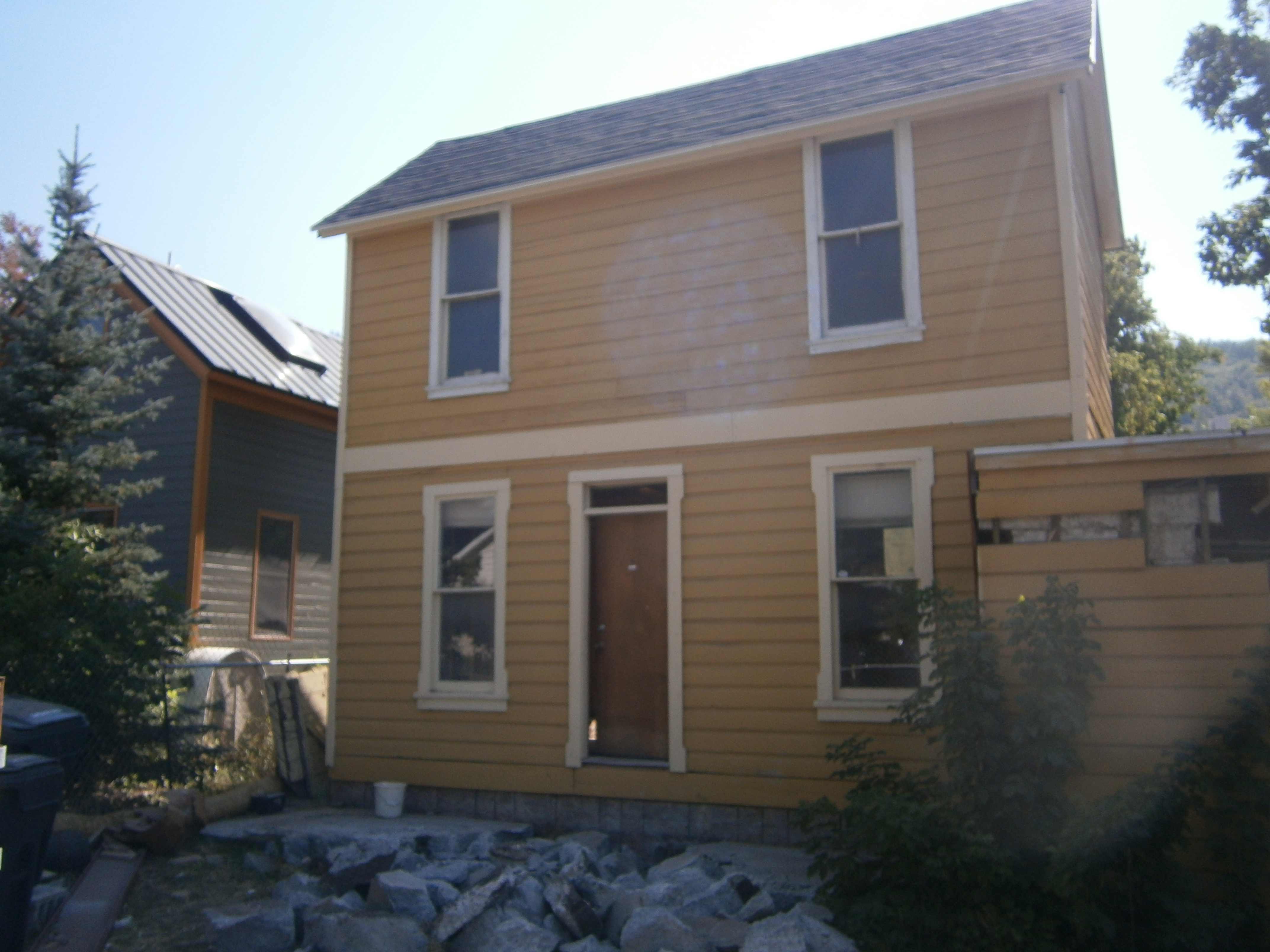 The Samuel D. Walker House, a historic home in Park City, Utah, United States.